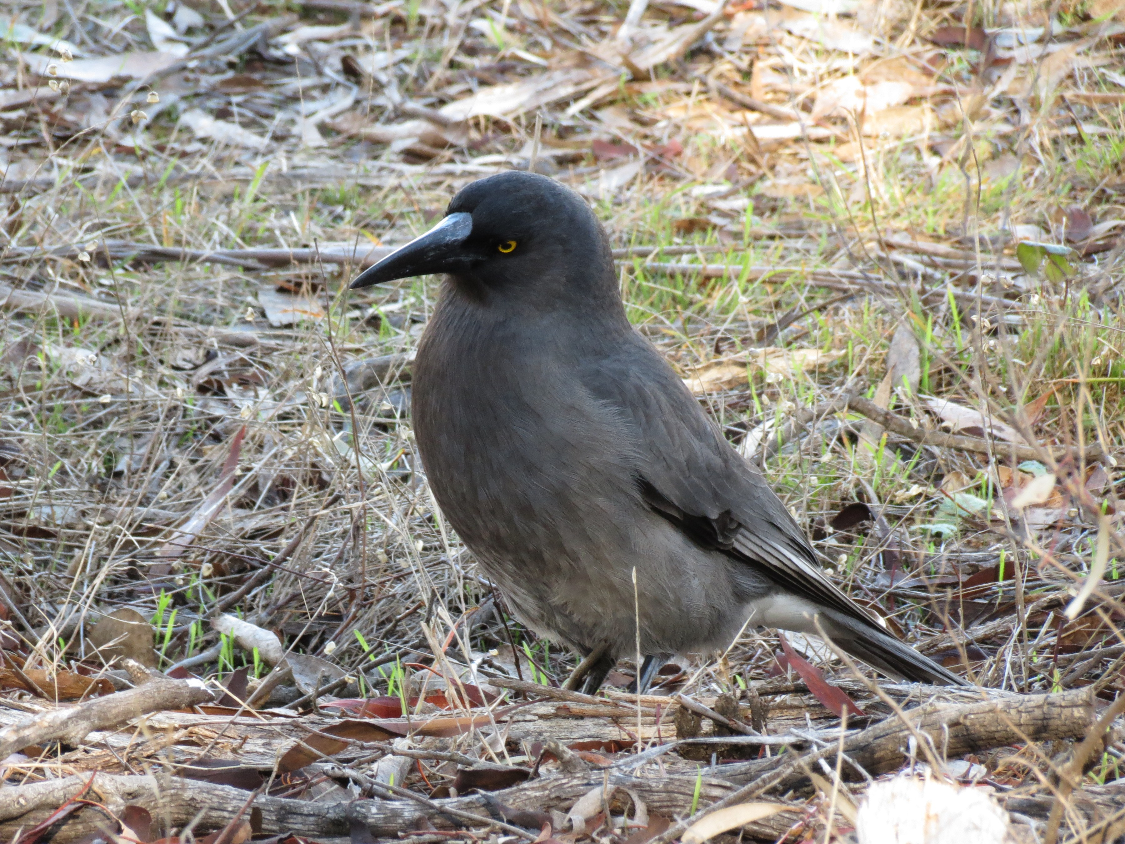 Strepera versicolor (Latham, 1801), Grey Currawong, Aranda Bushland, ACT, 16 June 2013